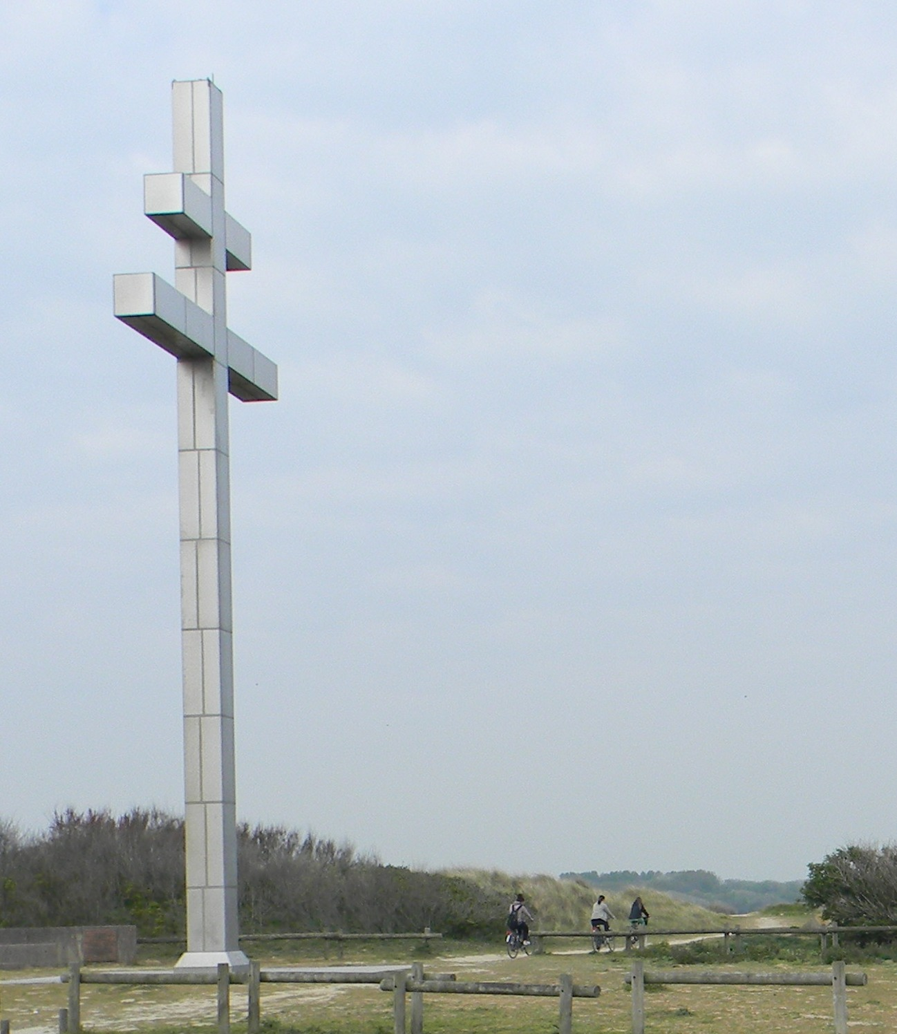 Lorraine Crucifix at the place where De Gaulle entered France in 1944